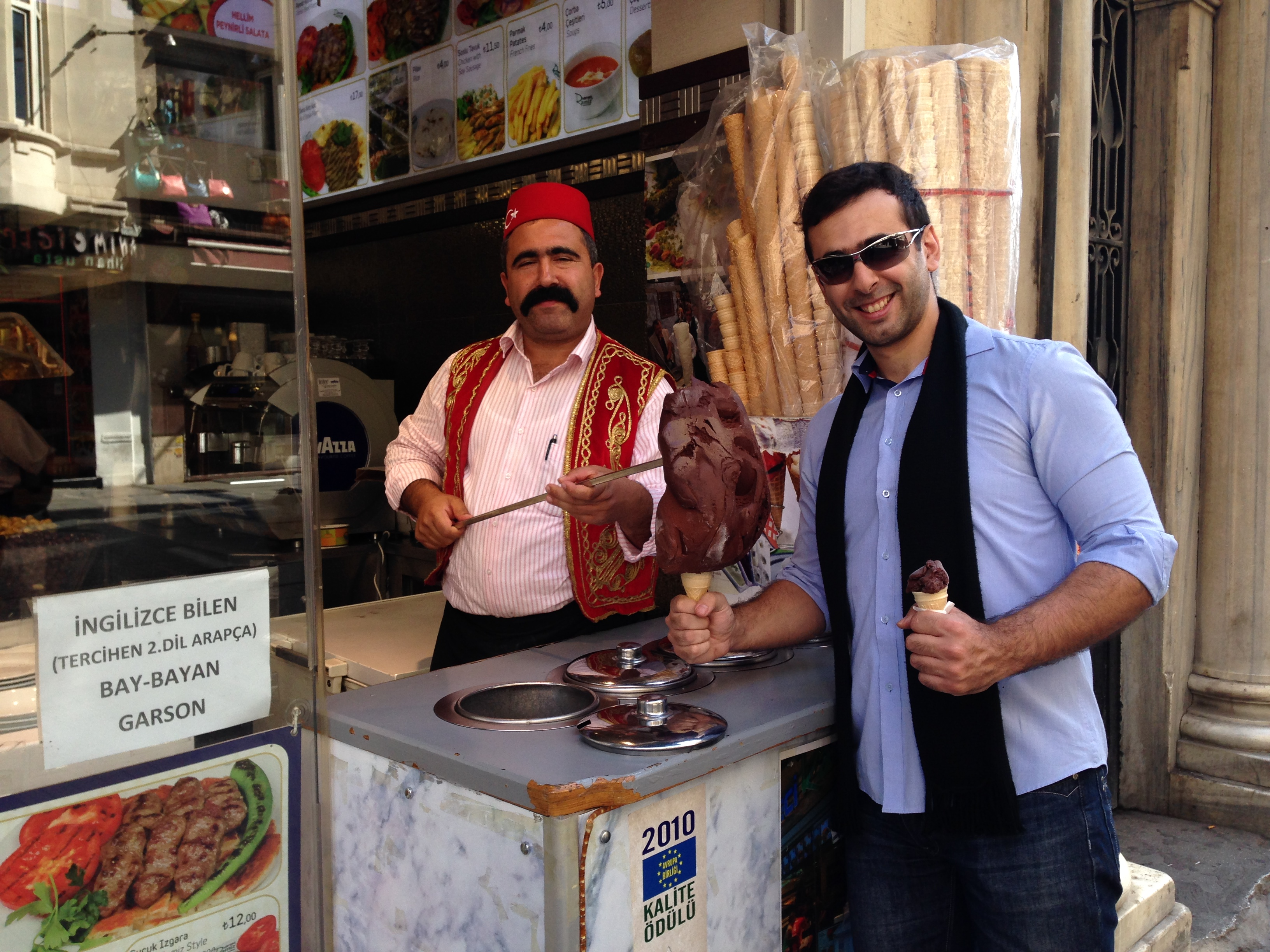 İstiklal Caddesi, Istanbul, Turkey.